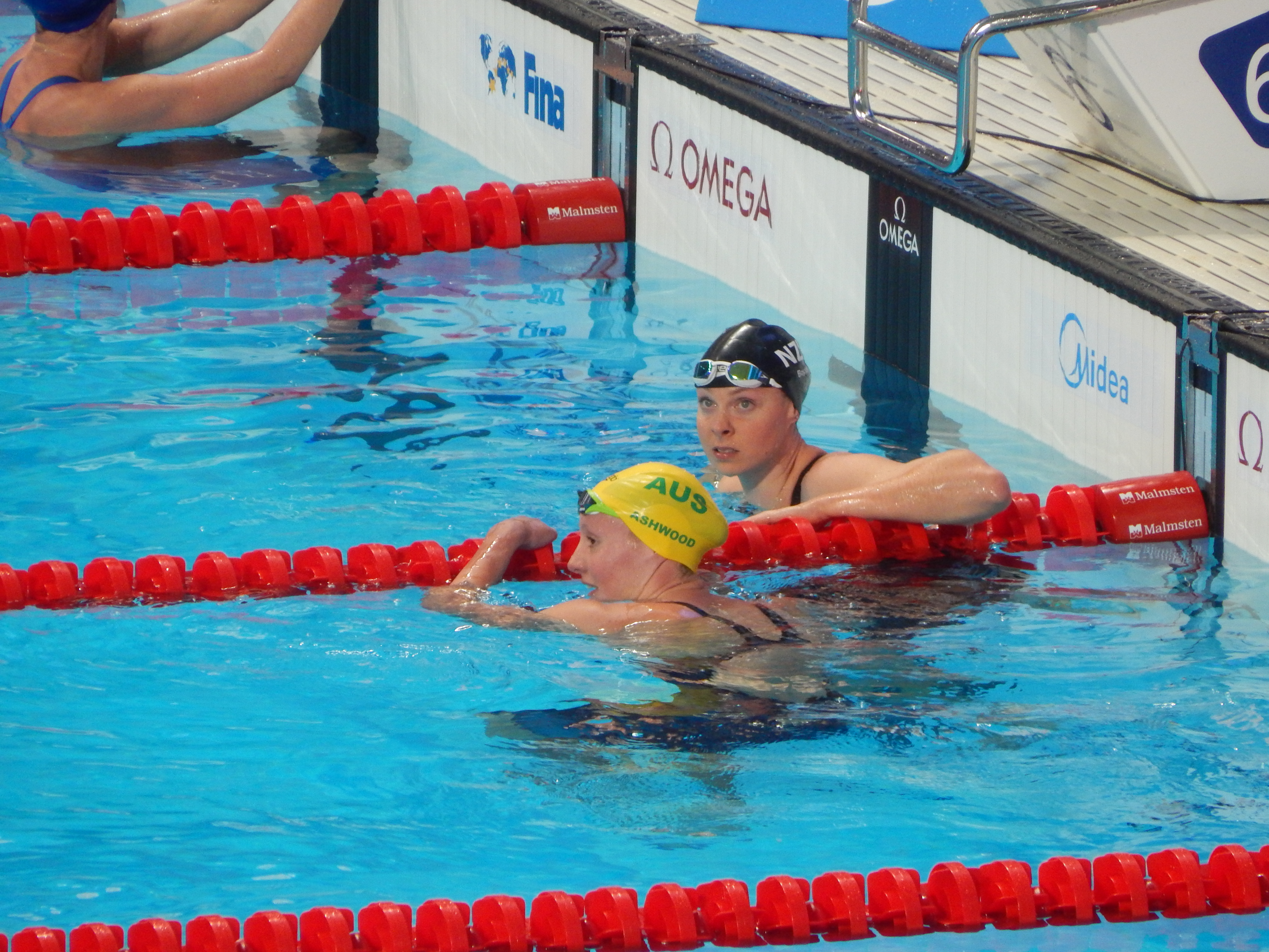 Jessica Ashwood and Lauren Boyle after women's 400m freestyle final